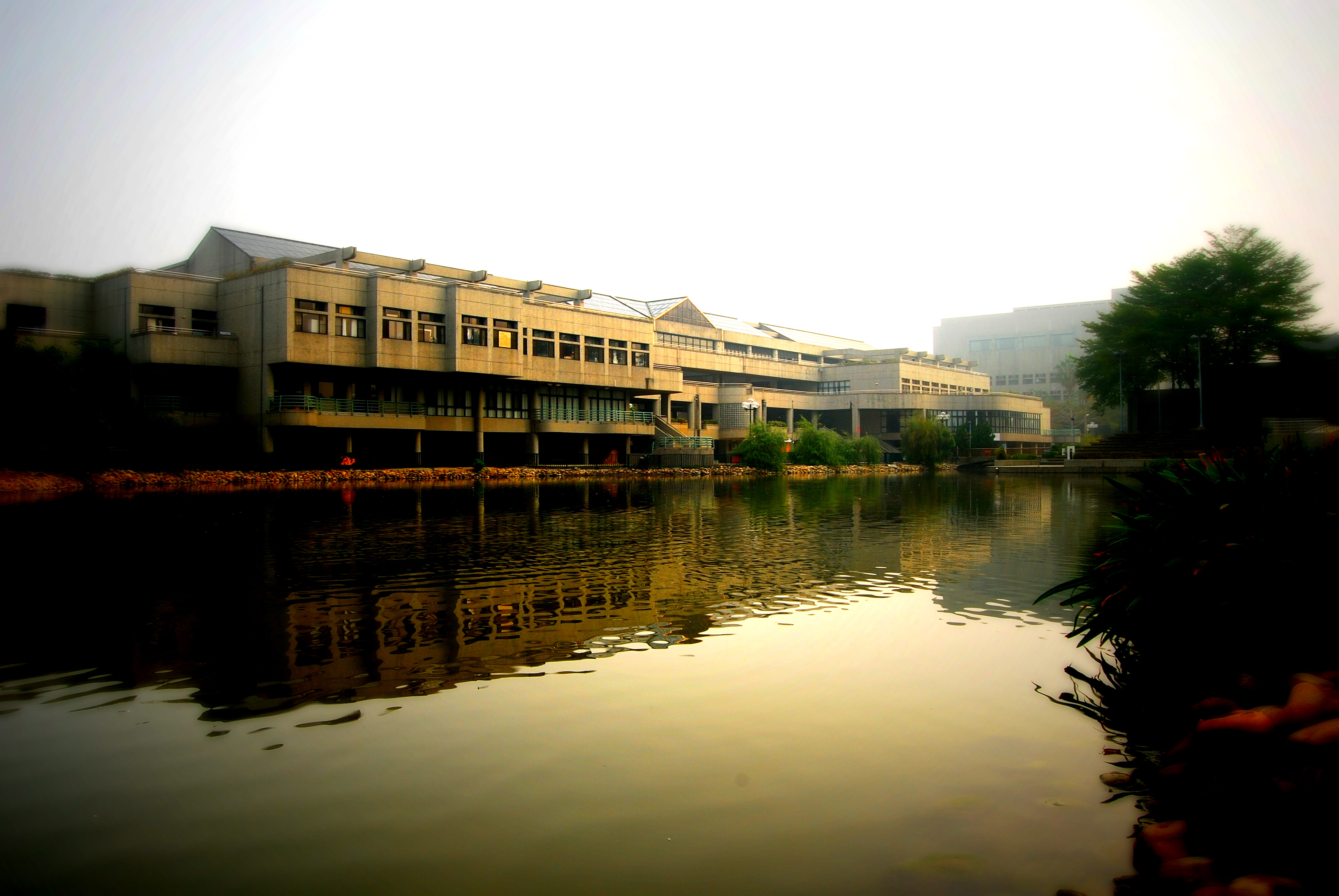 YunTech lake